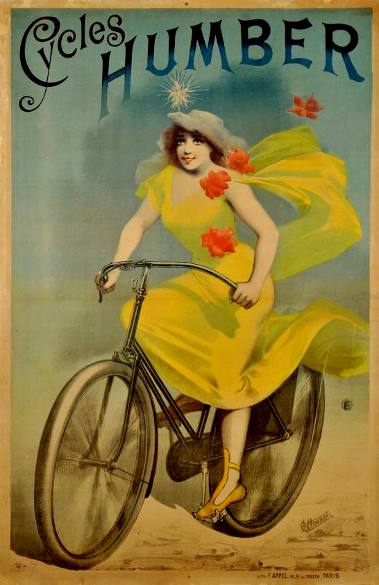 Advertising poster of Cycles Humbert, France.